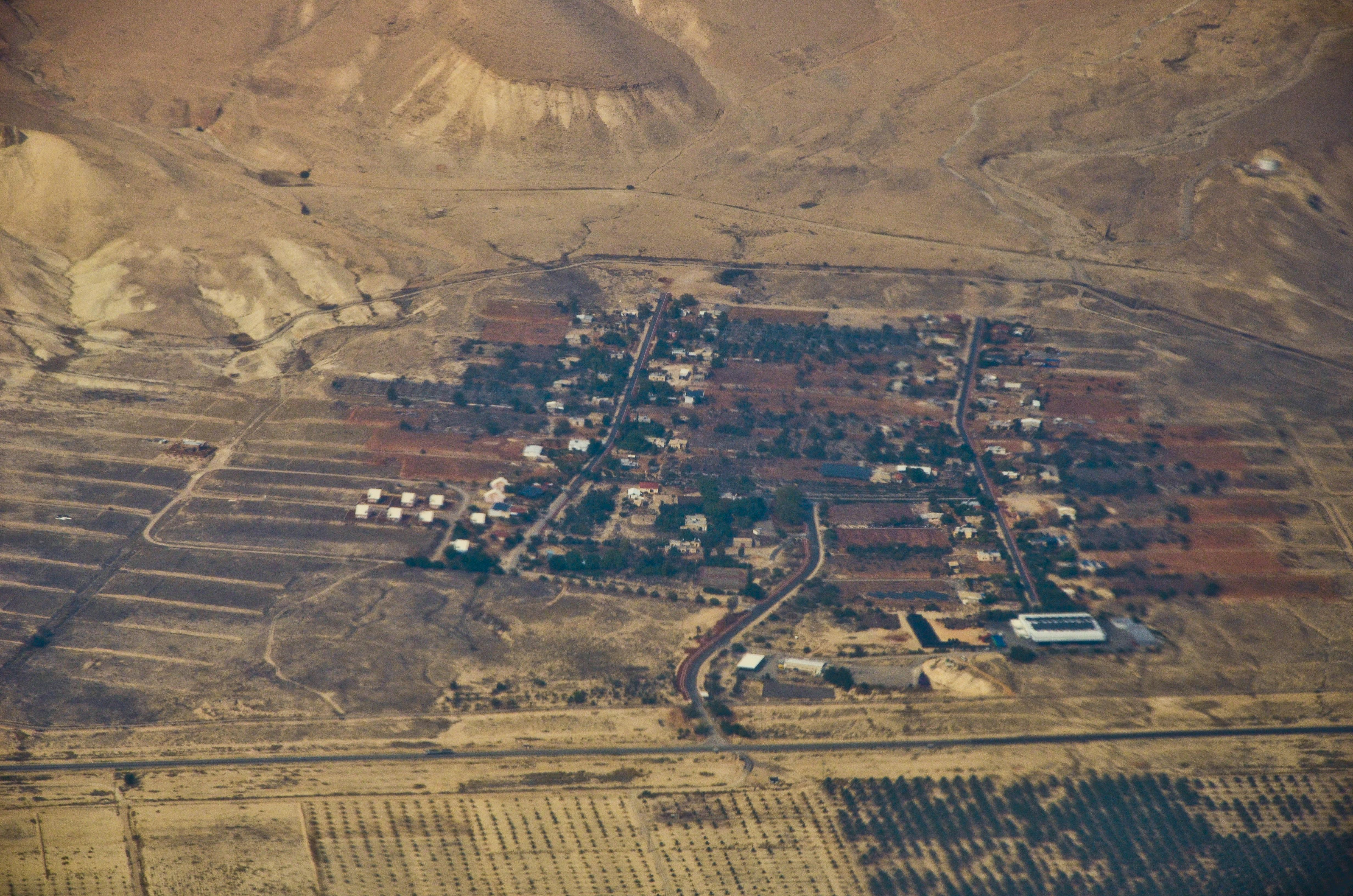 Shot taken from plane flown by Ilan Maytal